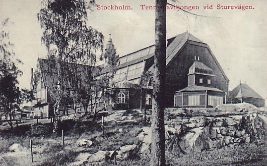 photos, sweden